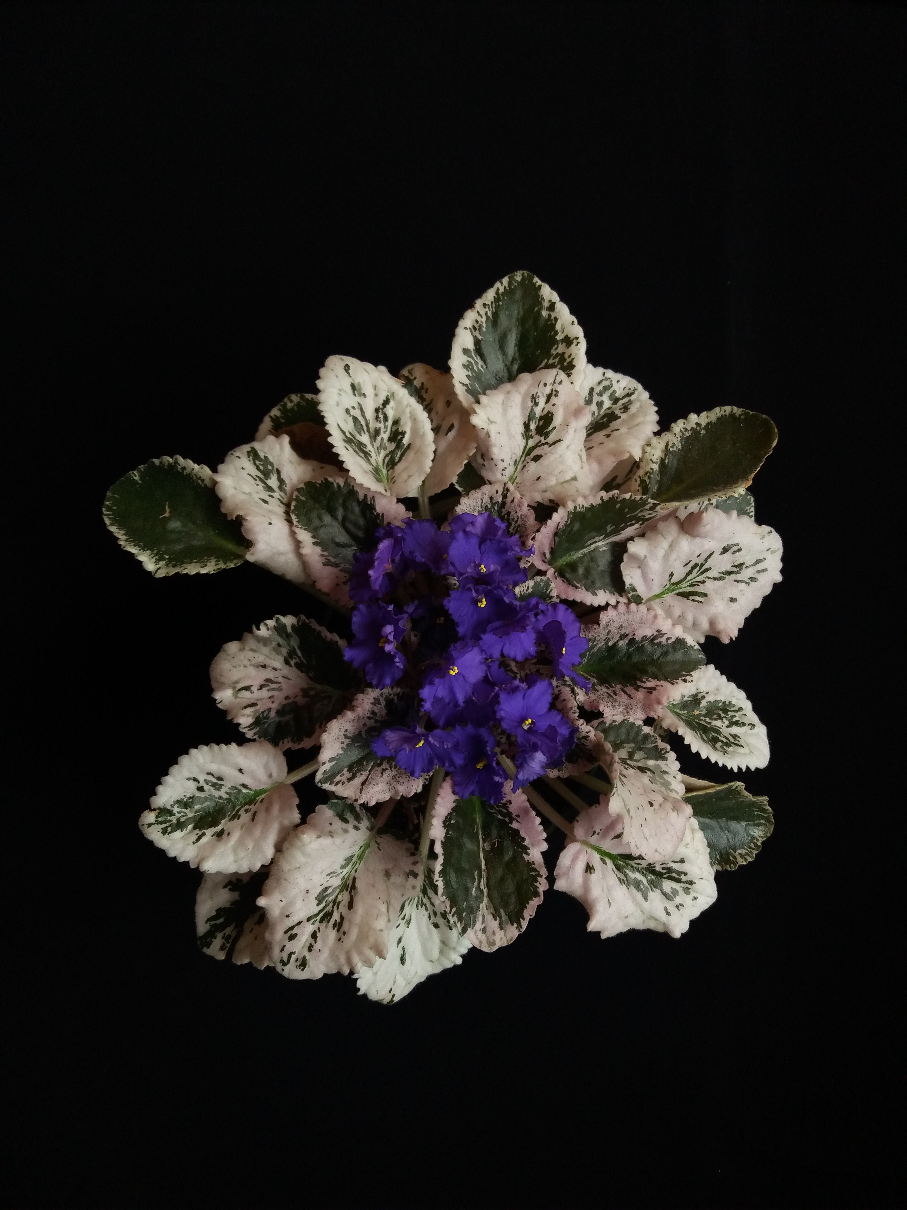 Saintpaulia with variegated leaves